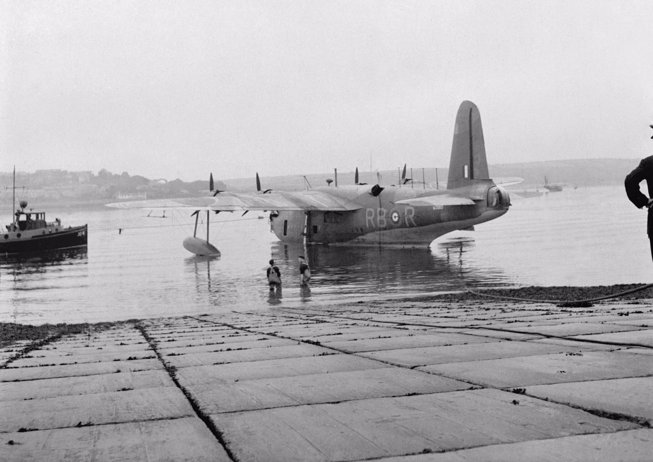 Royal Air Force 1939-1945- Coastal Command Sunderland II W3983/RB-R of No 10 Squadron RAAF, about to be brought out of the water at Pembroke Dock, 3 October 1941.